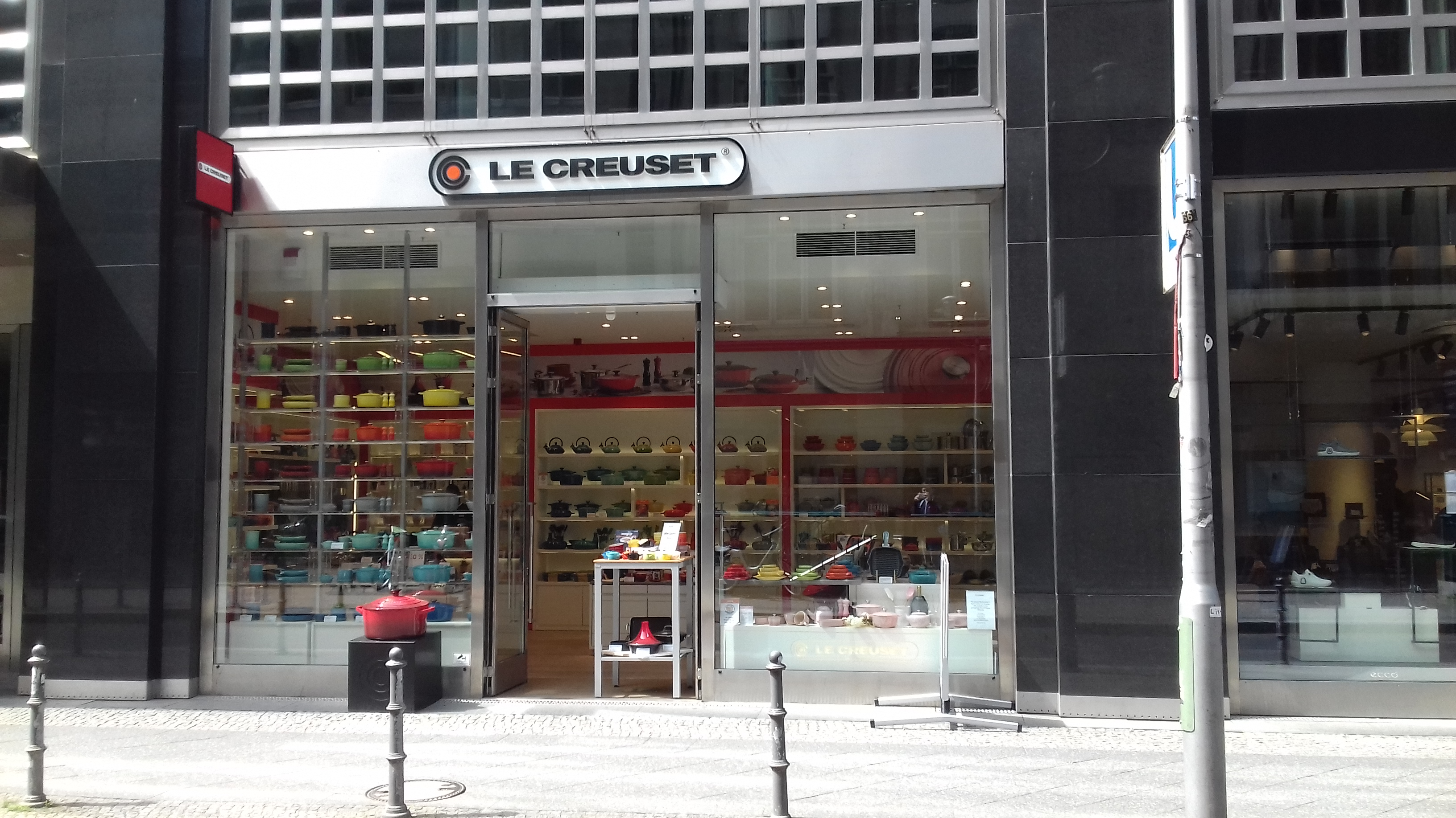 Le Creuset shop in Berlin, Germany